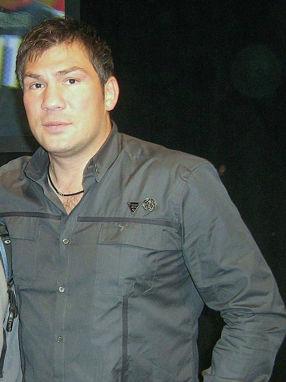 Dariusz Michalczewski, a Polish boxer.